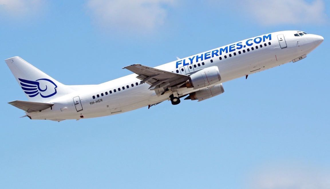 Fly Hermes - 9H-HER